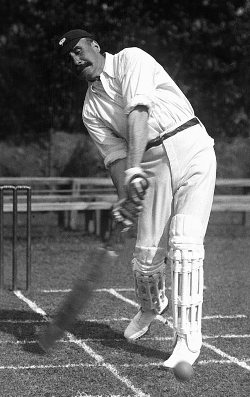 Hon Martin Bladen Hawke, (Lord Hawke), Yorkshire and England, circa 1905.